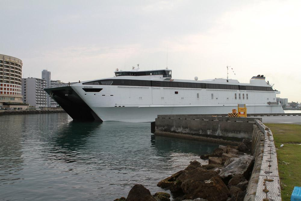 NAHA, Japan (March 13, 2011) The Westpac Express High Speed Vessel pulls away from the pier at Naha Military Port as it departs March 14 to deliver a forward arming and refueling point to support humanitarian operations in Japan following an 8.9 magnitude earthquake and tsunami. (U.S. Marine Corps photo by Lance Cpl. Heather Choate/Released)